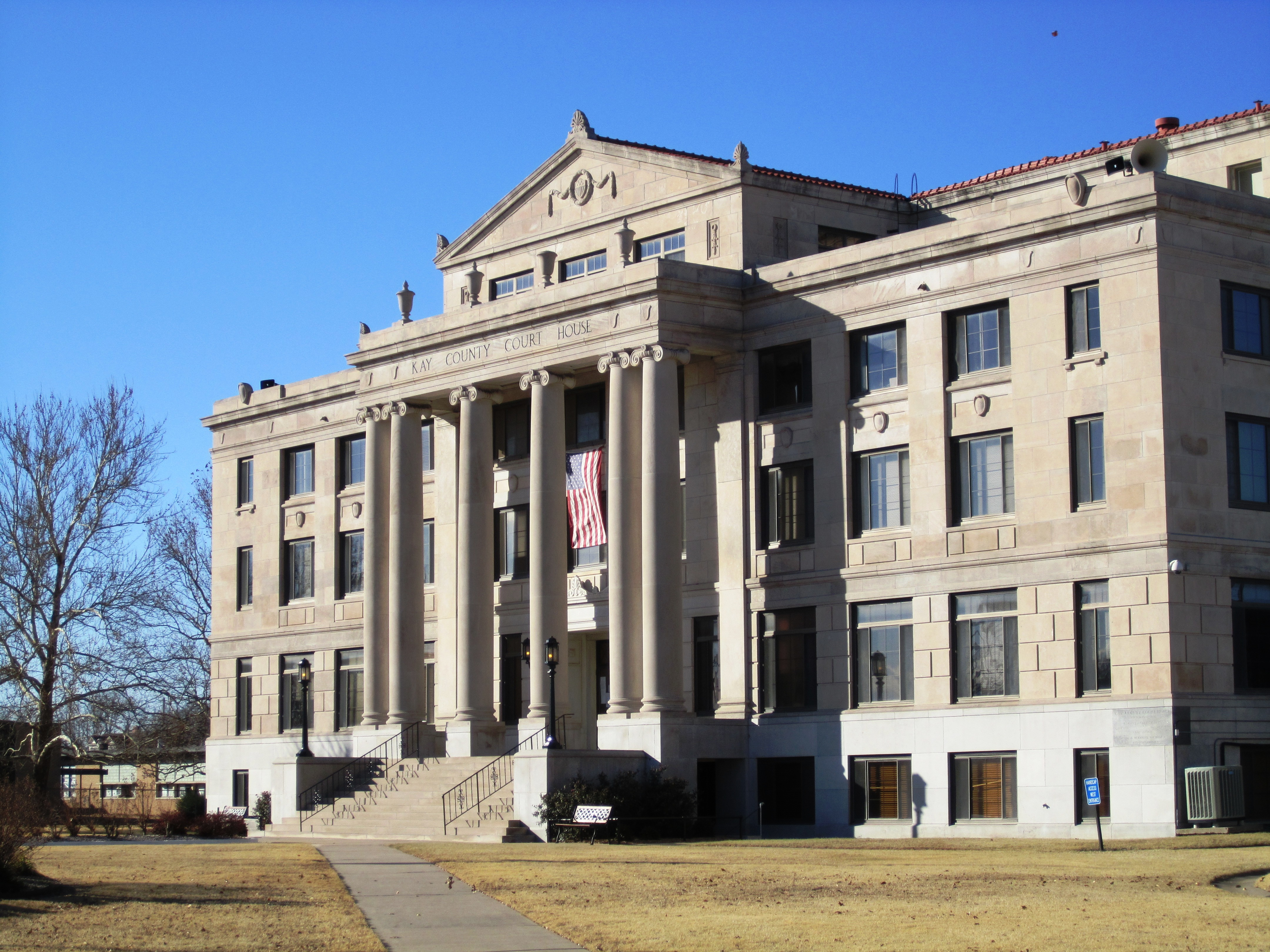 A photo of the Kay County Courthouse in Newkirk, Oklahoma